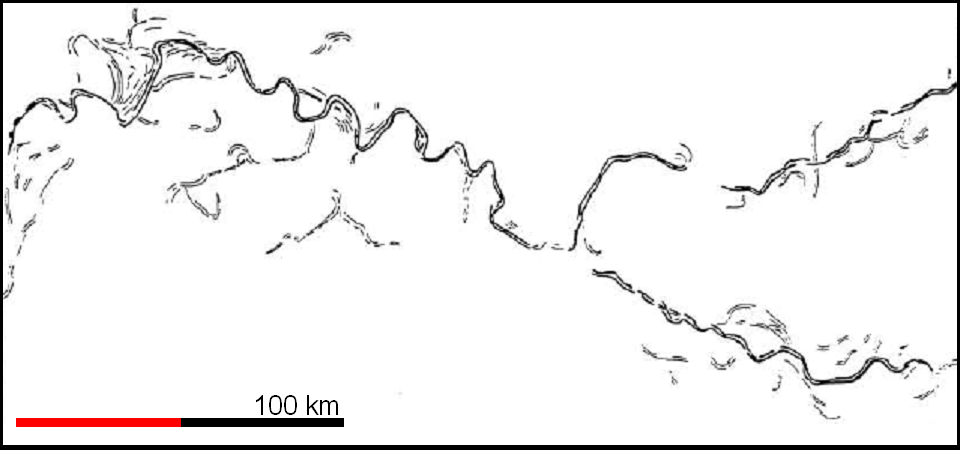 Line drawing of meandering canali (bold lines) and features interpreted as meander scars (thin lines), including cutoff meanders and meander scrolls. Center near lat. 33.5°S, long. 158.5°. Mapped from Magellan SAR mosaic F-MIDRP. 35 S 157;l. Map spans 289 km from left to right (west to east). Modified from Kargel J.S., Abstracts of the 25th Lunar and Planetary Science Conference, held in Houston, TX, 14-18 March 1994., p.667.